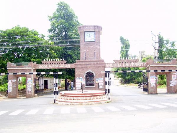 Andhra University Entrance Gate